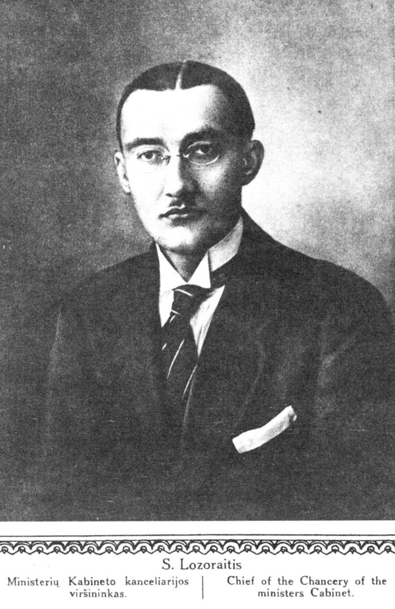 Stasys Lozoraitis, Stasys Lozoraitis Lithuanian diplomatLietuvių: Stasys Lozoraitis (1898), Lietuvos diplomatas